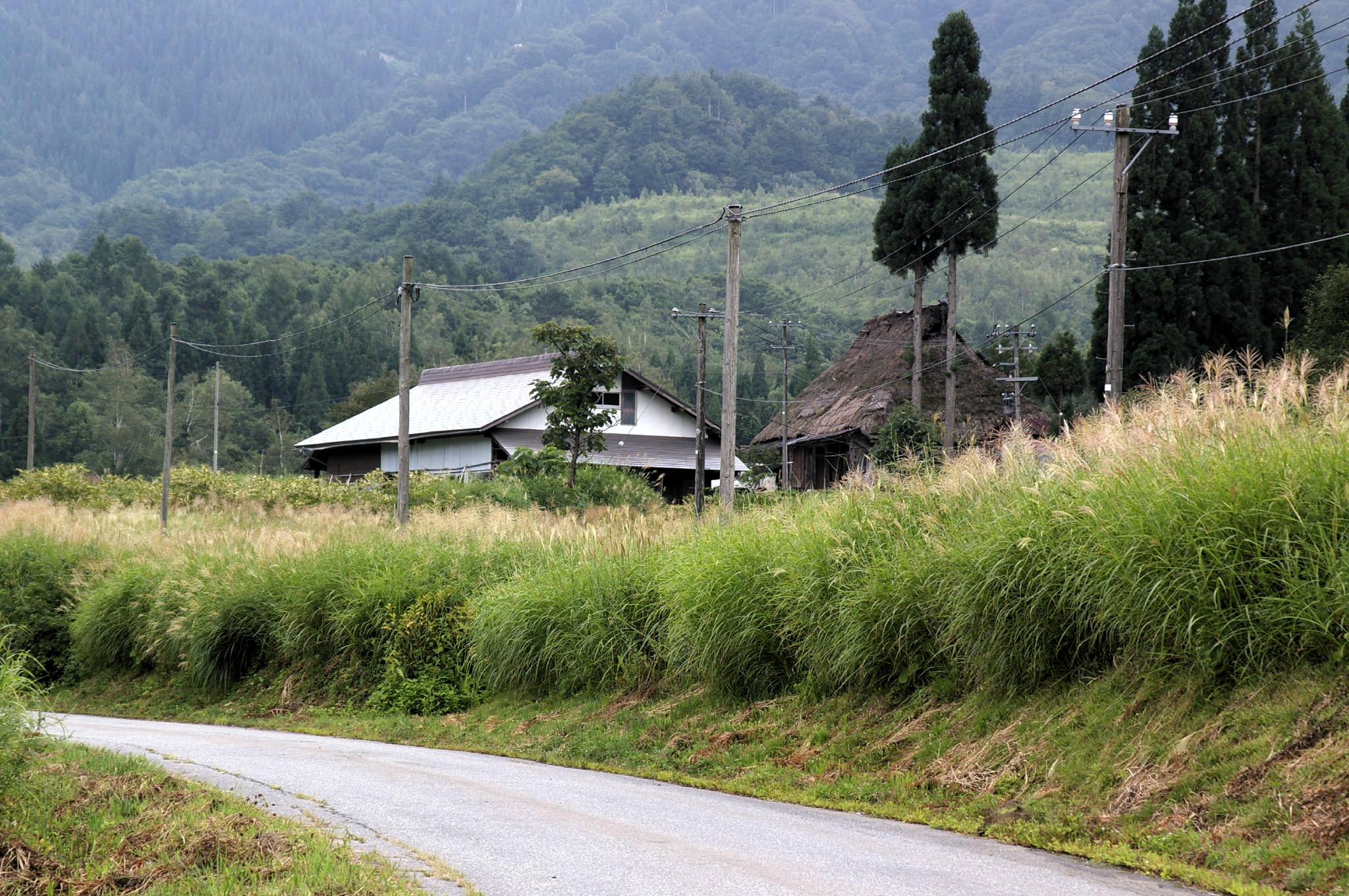 Old countryside house in northernmost Gifu Prefecture, Japan. The Northern Alps (Hida mountains) of Japan are towering in the back of the picture.